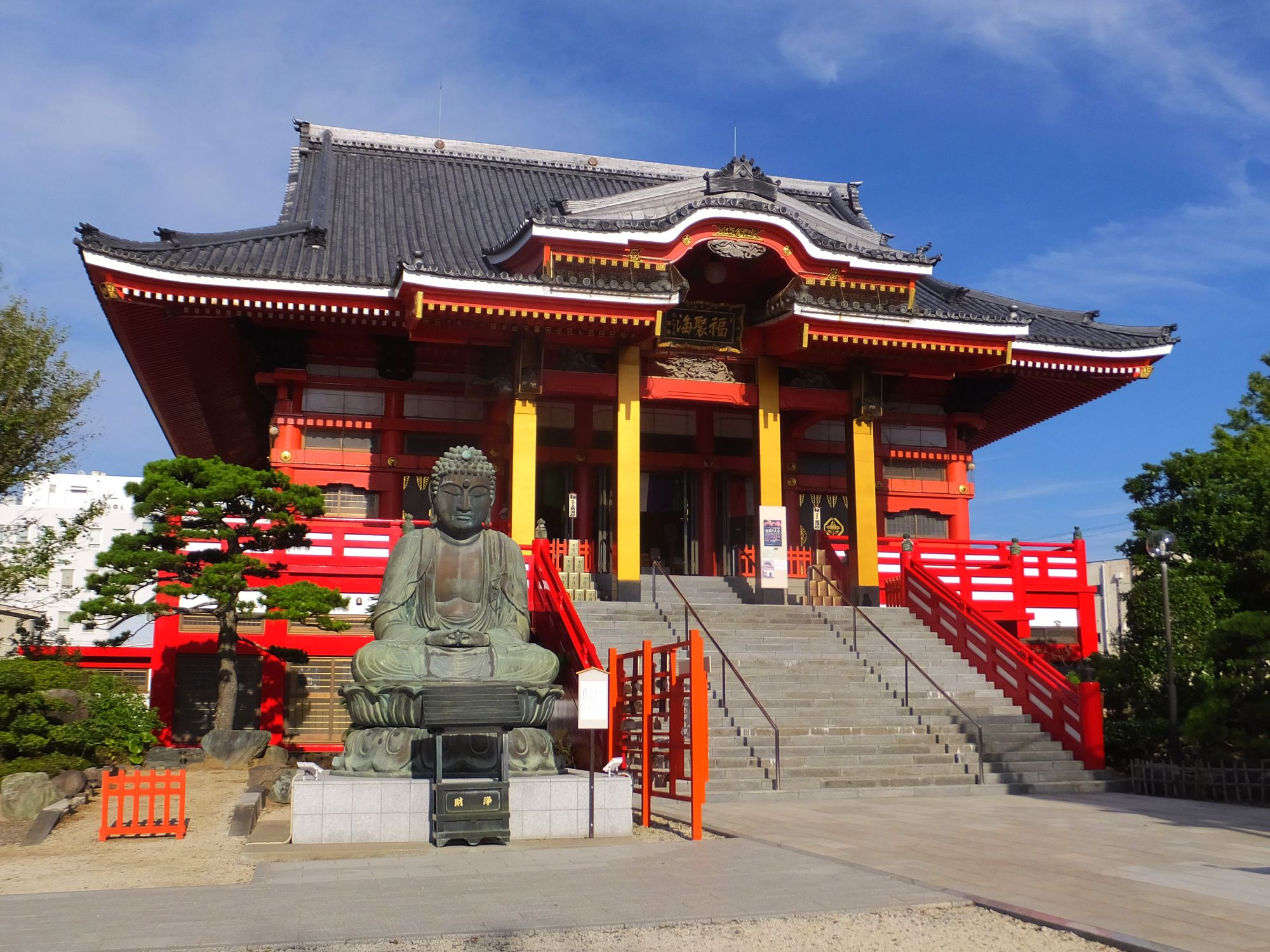 Main hall of Enpuku-ji temple in Chōshi, Chiba Prefecture